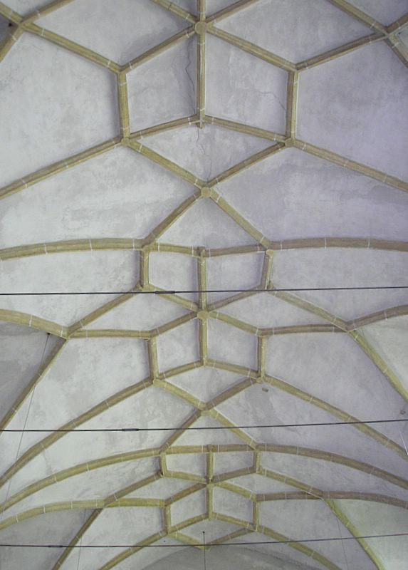 Oberwittelsbach, Subsidiary Church of the Blessed Virgin Mary. Gothic stellar vault of the main aisle.